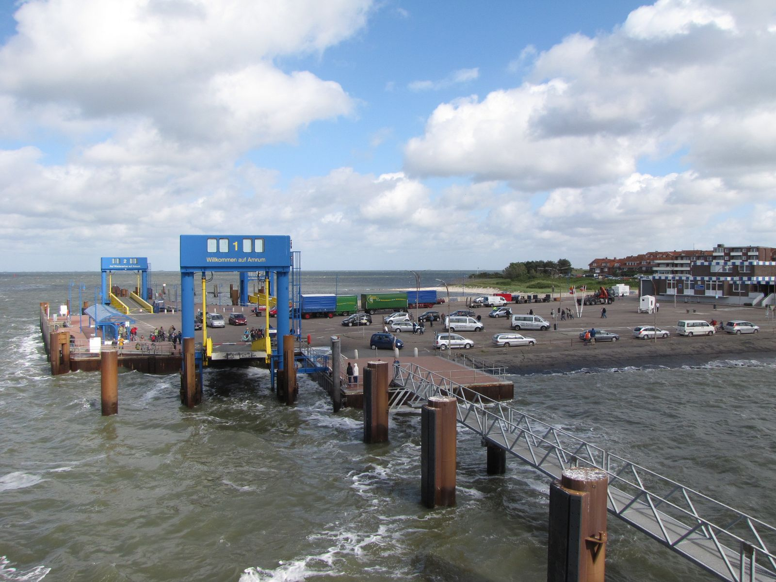 Germany / North Sea / Island Amrum: ferry terminal